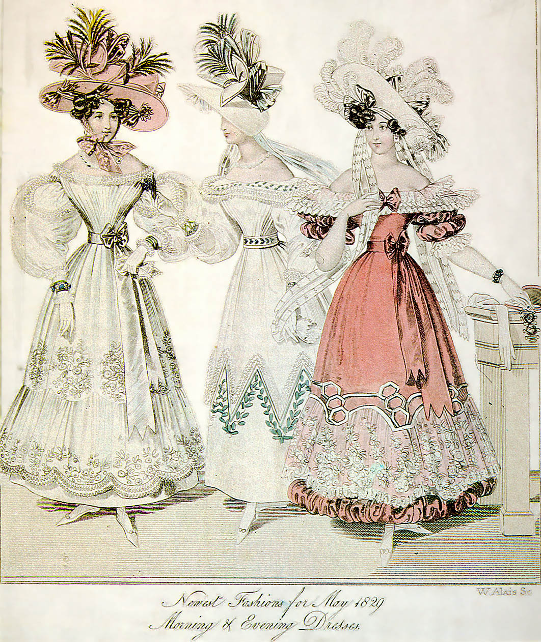 (The rightmost outfit, with its skimpier sleeve coverage, non-whitish color scheme, and slightly lower neckline, is the evening dress. The lady on the left is wearing a version of the classic late 1820's "salad plate" hat.)